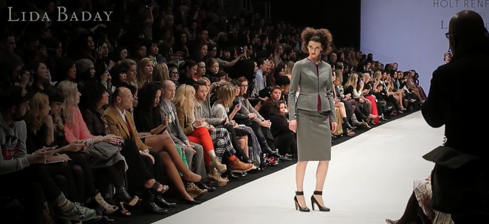 Lida Biday design 2012 by Kenton Magazine